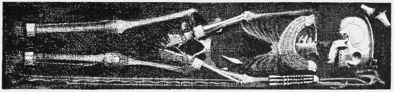 Drawing of the mummified skeleton of the ancient Egyptian princess Nubhetepti-khered, likely daughter of pharaoh Hor of the 13th Dynasty, Middle Kingdom. From the funerary complex of pharaoh Amenemhat III at Dahshur, discovered in 1894.